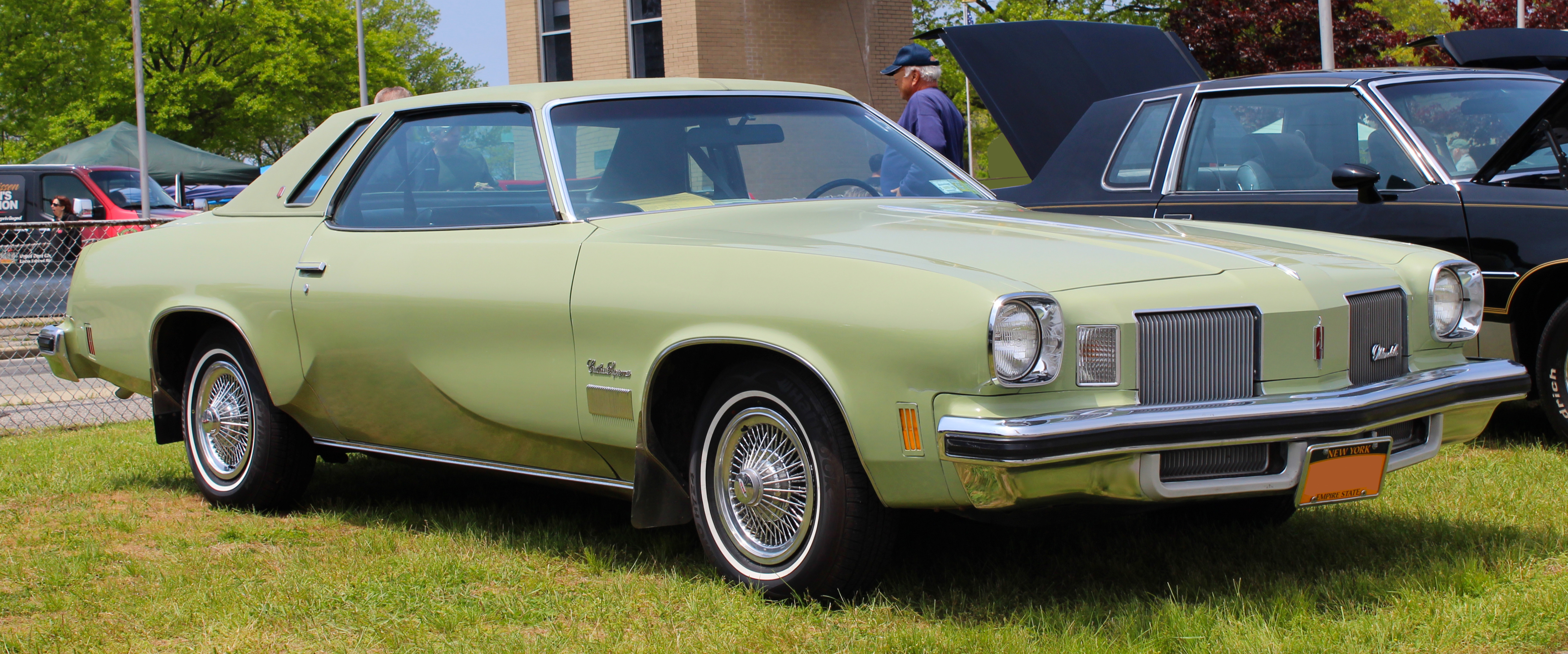 A 1973 Oldsmobile Cutlass Supreme photographed during at a classic car show, in Merrick, New York, USA